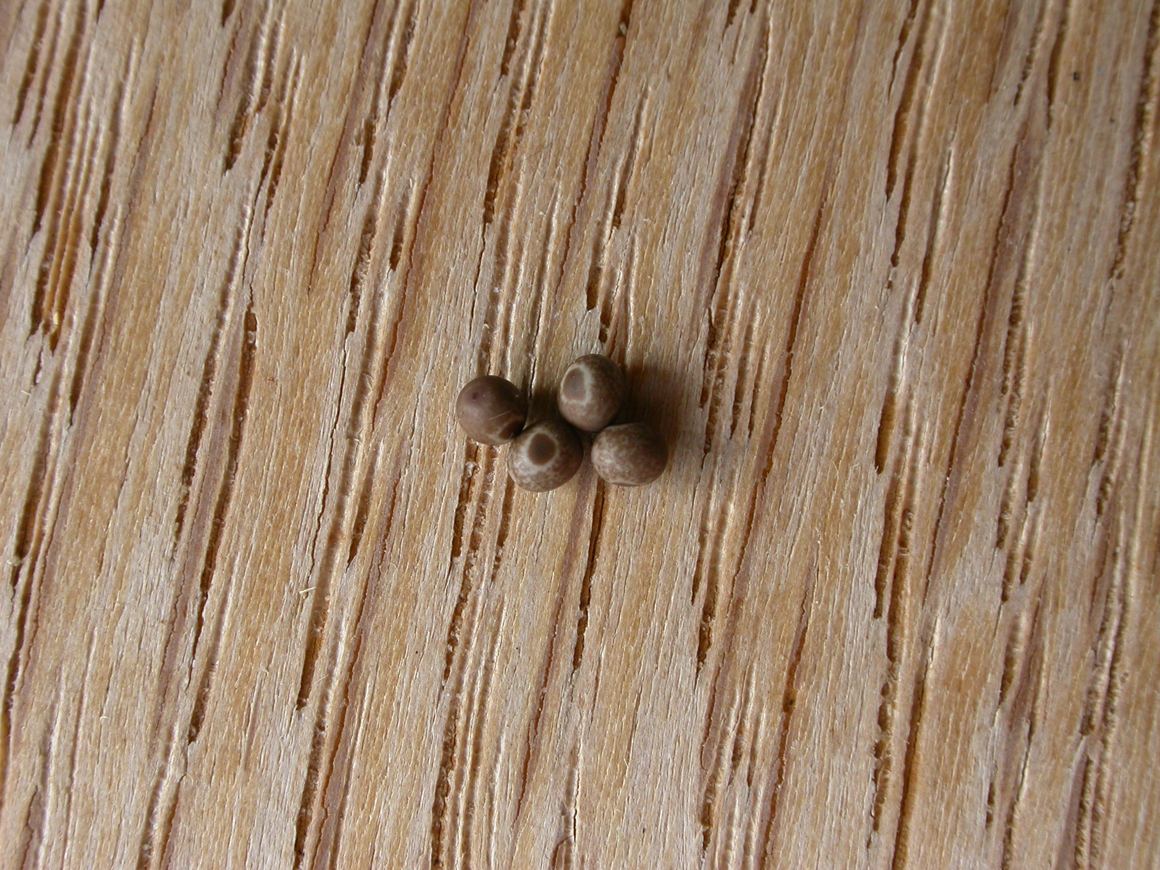 Pinara metaphaea (Walker, 1862), eggs laid by female attracted to MV light, Blackheath, NSW, 23/24 January 2011